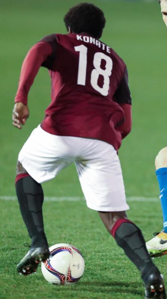 Tiémoko Konaté